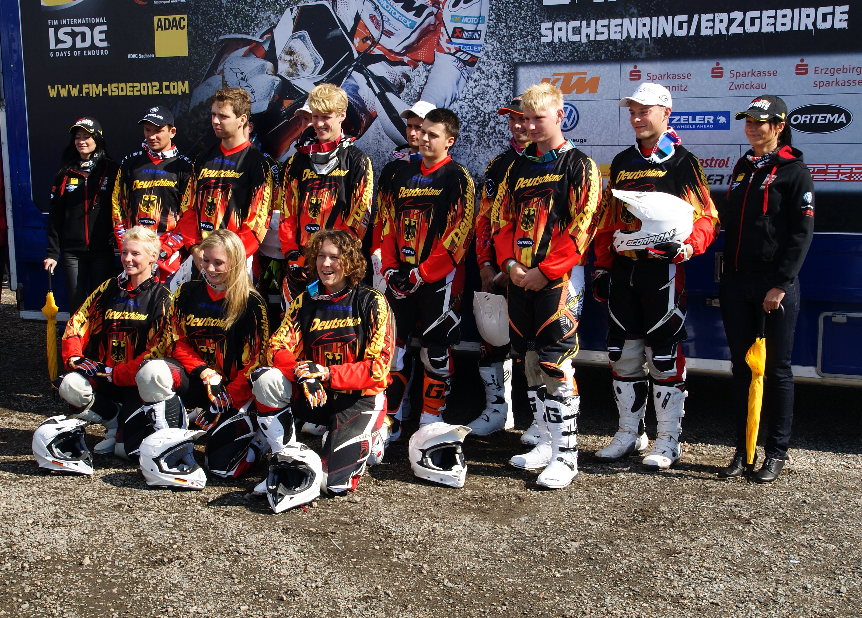 The making of this document was supported by the Community-Budget of Wikimedia Germany. 87. ISDE Red Bull Six Days 2012 National Teams Germany